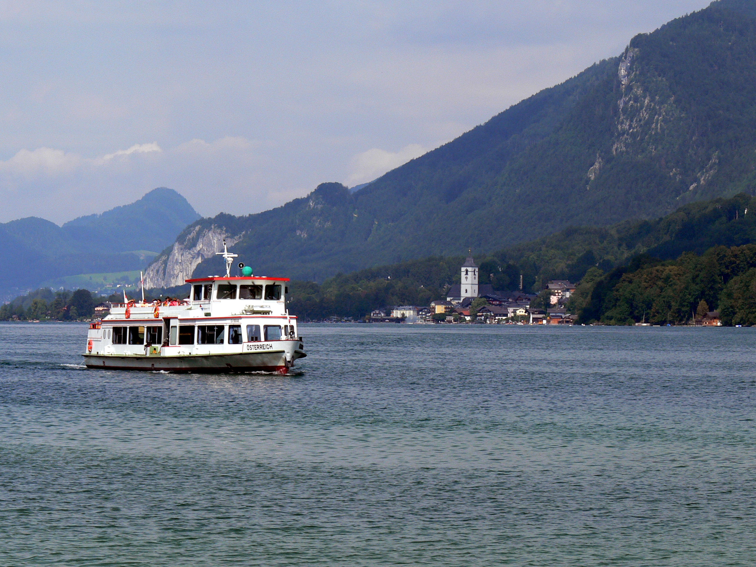 Boat for round-trips at Wolfgangsee passing St.Wolfgang ( View from Strobl )